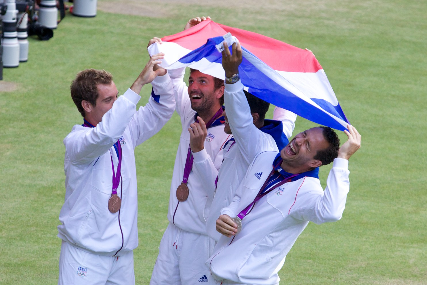 From left to right : Richard Gasquet, Julien Benneteau, Jo-Wilfried Tsonga under the flag, and Michael Llodra.